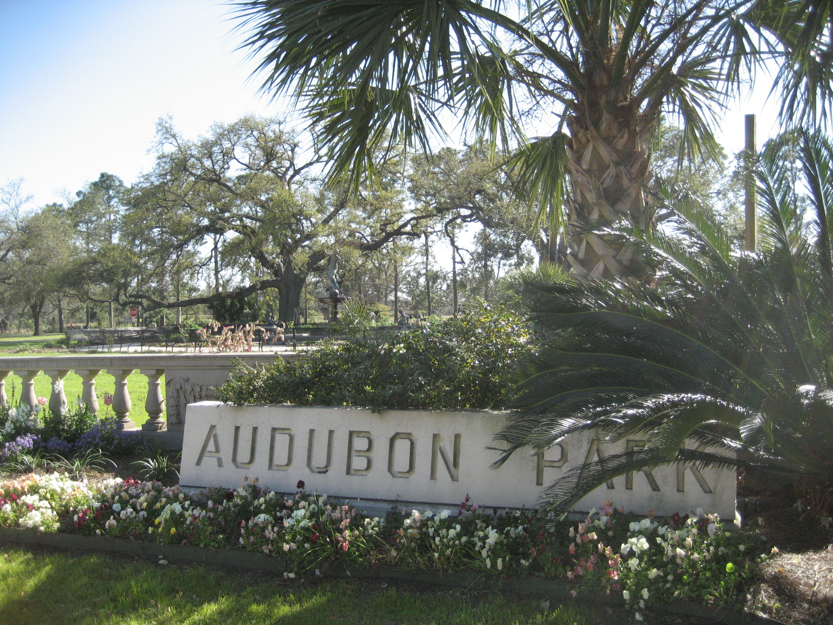 Audubon Park, New Orleans, Louisiana. View of St. Charles Avenue side.